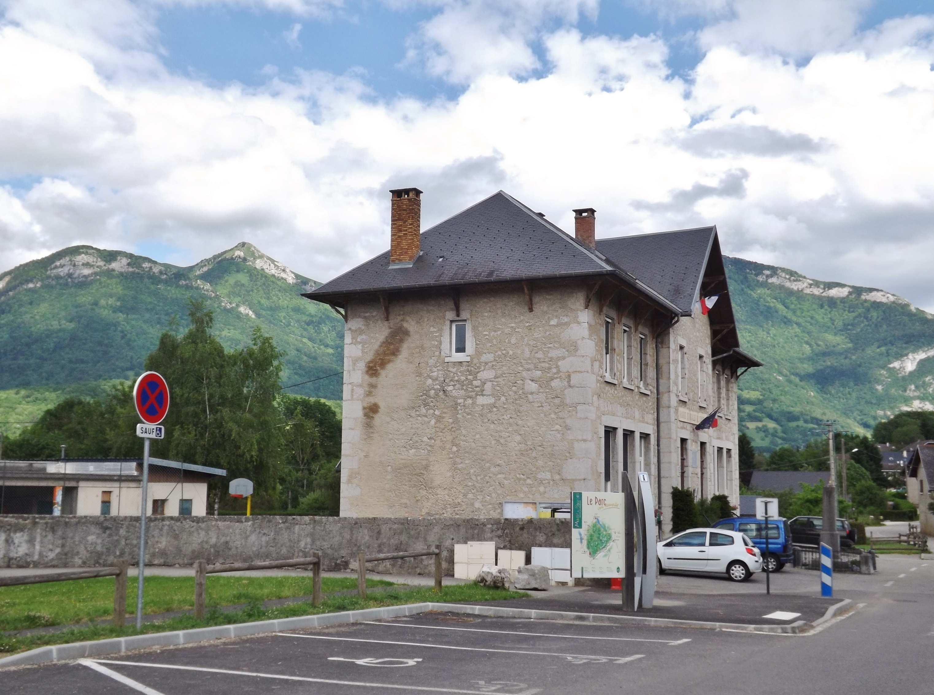 Sight of the commune of Curienne town hall, in the Bauges mountains of Savoie, France.